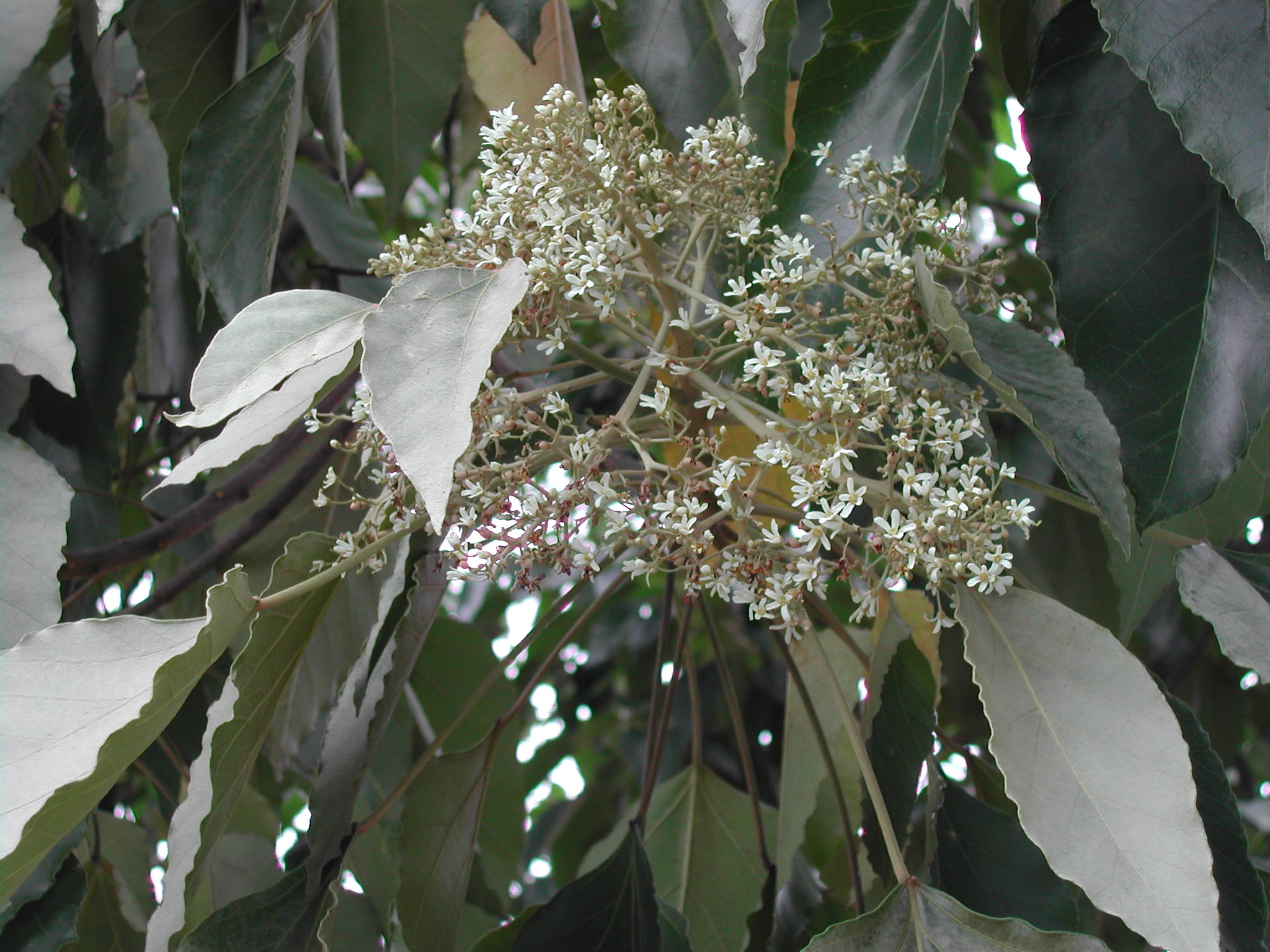 Aleurites moluccana flowers